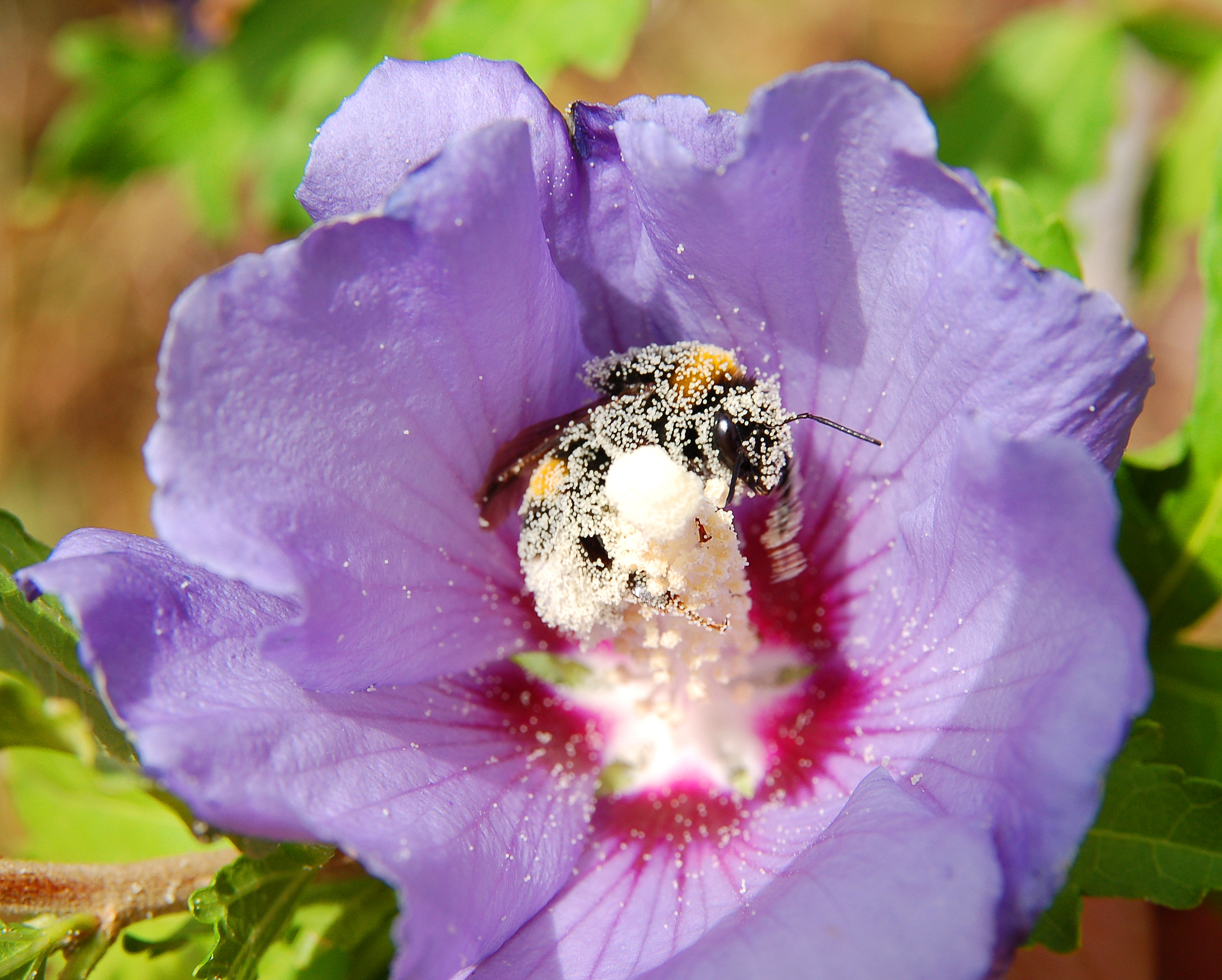 Hibiscus syriacus and Bombus ruderatus.